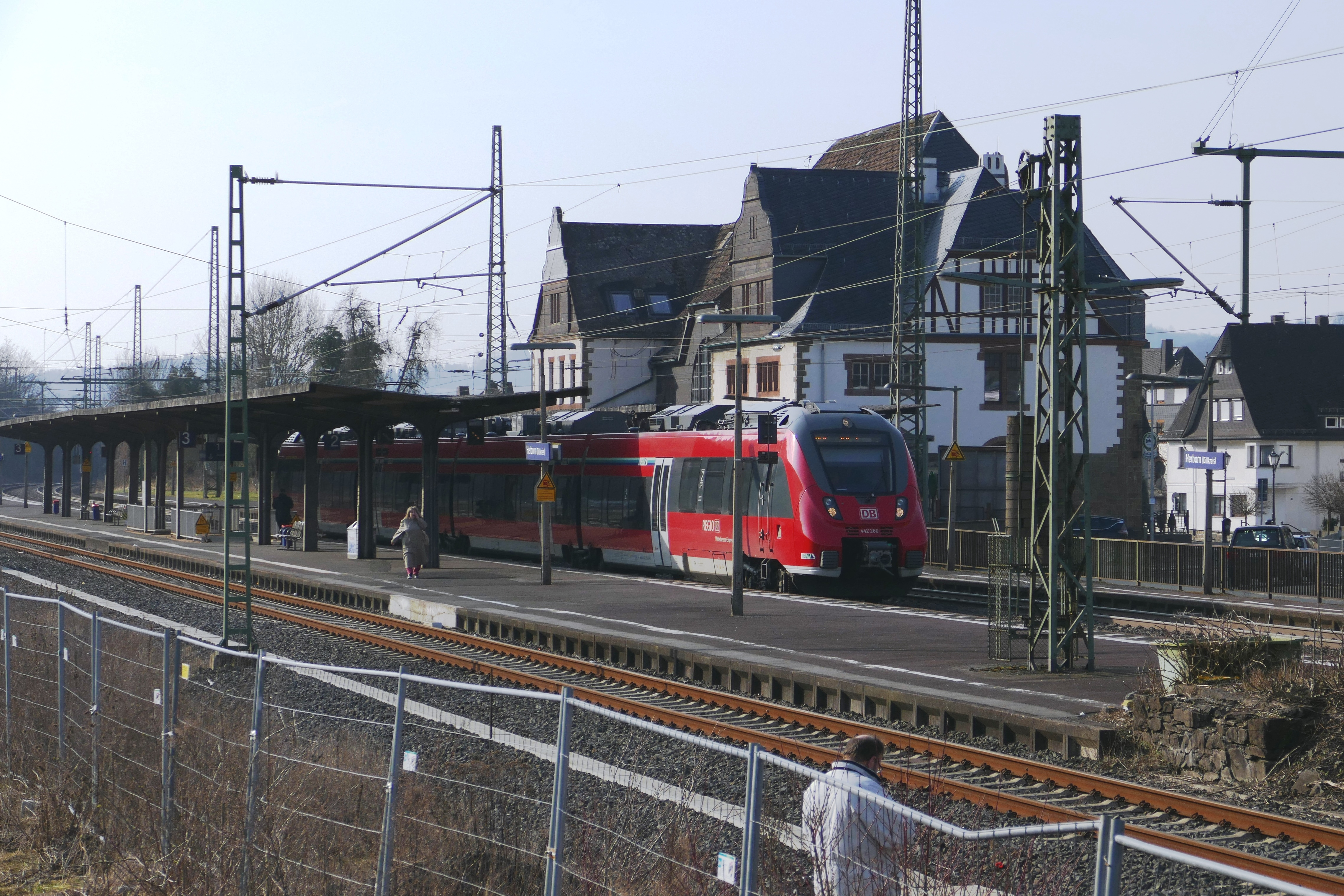 Railcar Bombardier Talent 2 at Herborn Station